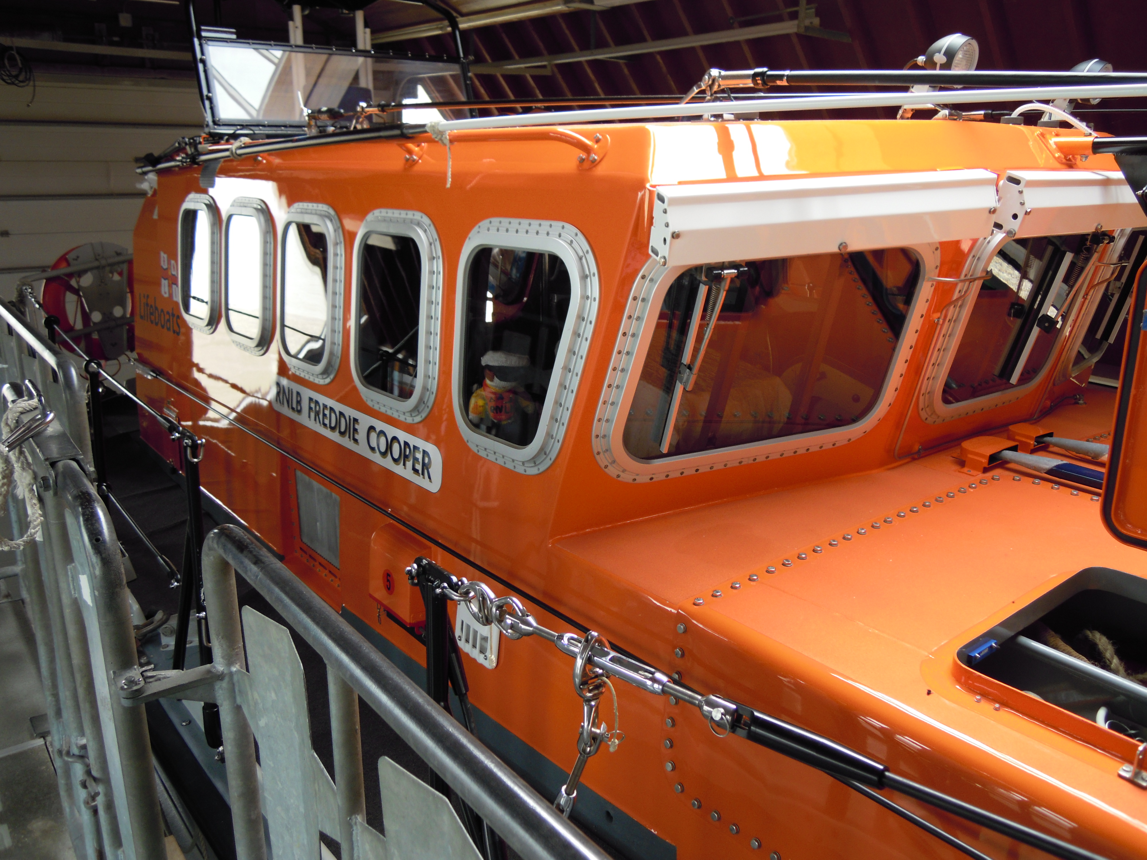 A Digital photograph of a photograph of the bridge of the lifeboat ON 1193 Freddie Cooper